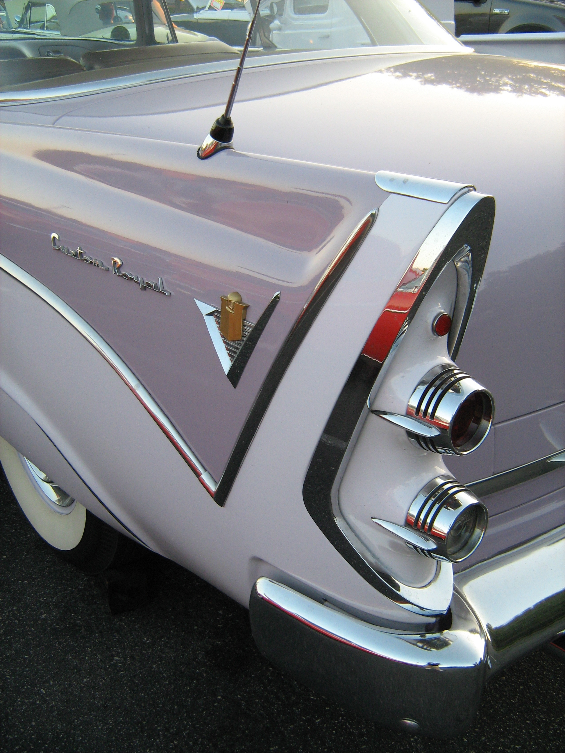 1956 Dodge La Femme - Rear fender and tailfin